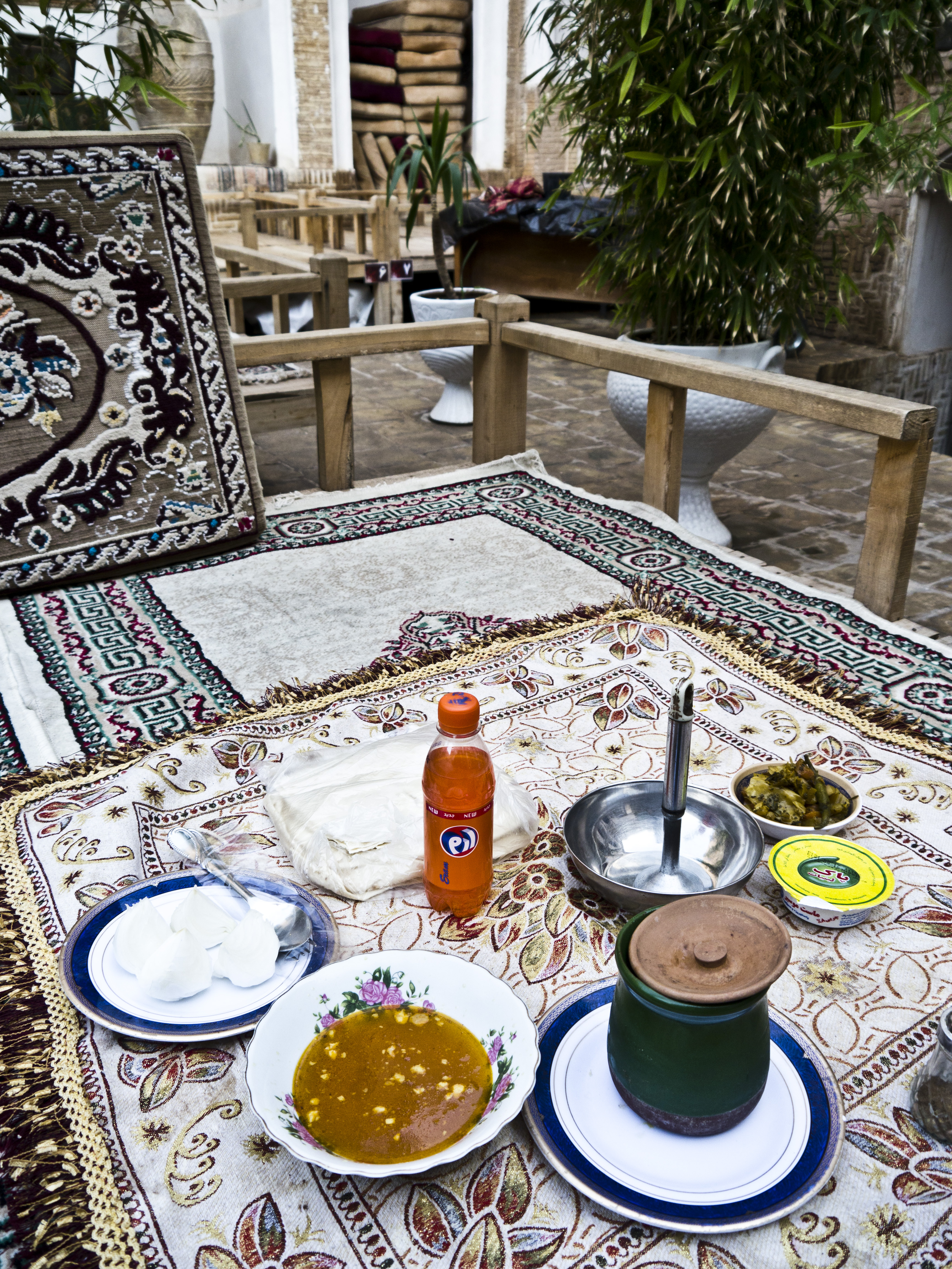 Iranian Abgoosht/Dizi. Traditionally served in a old style Sofrekhooneh.